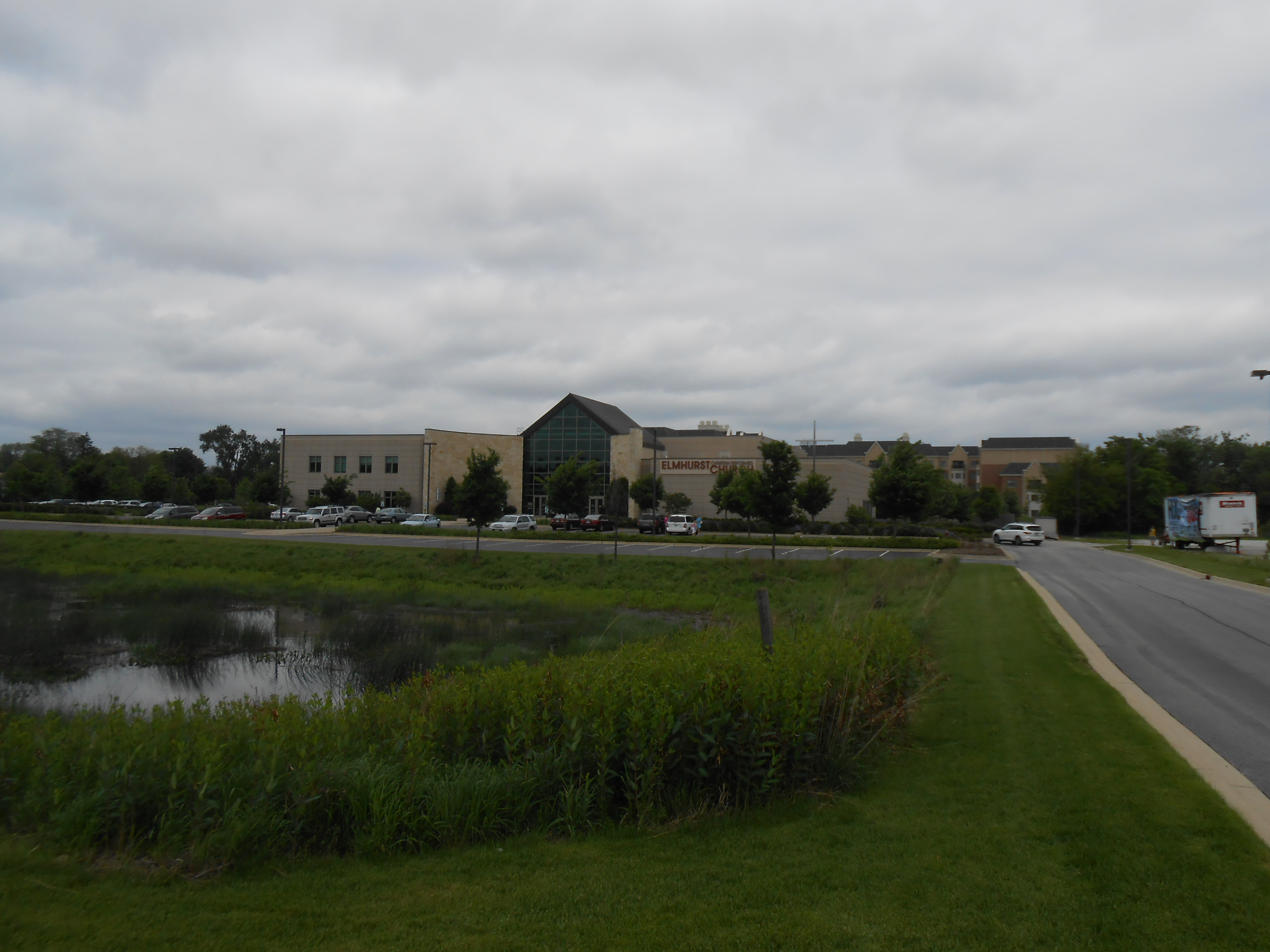 The current home of Elmhurst Christian Reformed Church in Elmhurst, Illinois. It has used this building since 2009 when it moved from a different location in the city.